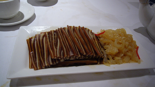 Pigs ear and Jelly fish comboPigs ear and Jelly fish combo